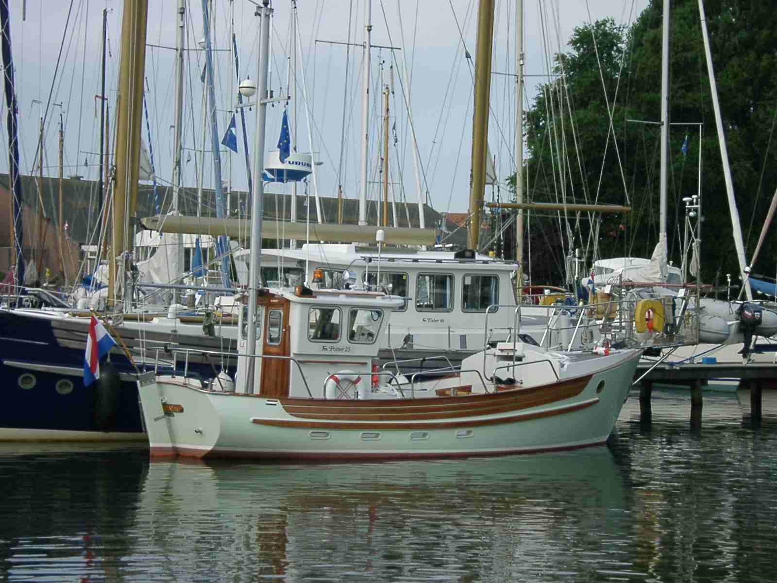 Smallest Fisher/Potter 25 alongside it's largest sister: Fisher 46 during a Fisher owners meeting in The Netherlands, 2005